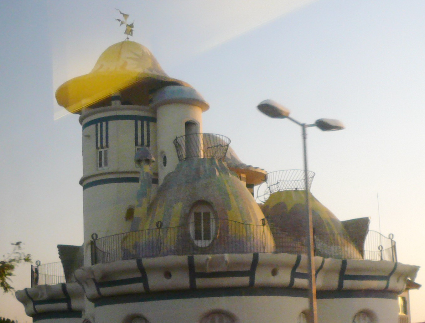 Torre de la Creu o Casa del Ous (eggs house), by Josep Maria Jujol, in Sant Joan Despí, Baix Llobregat, Catalonia